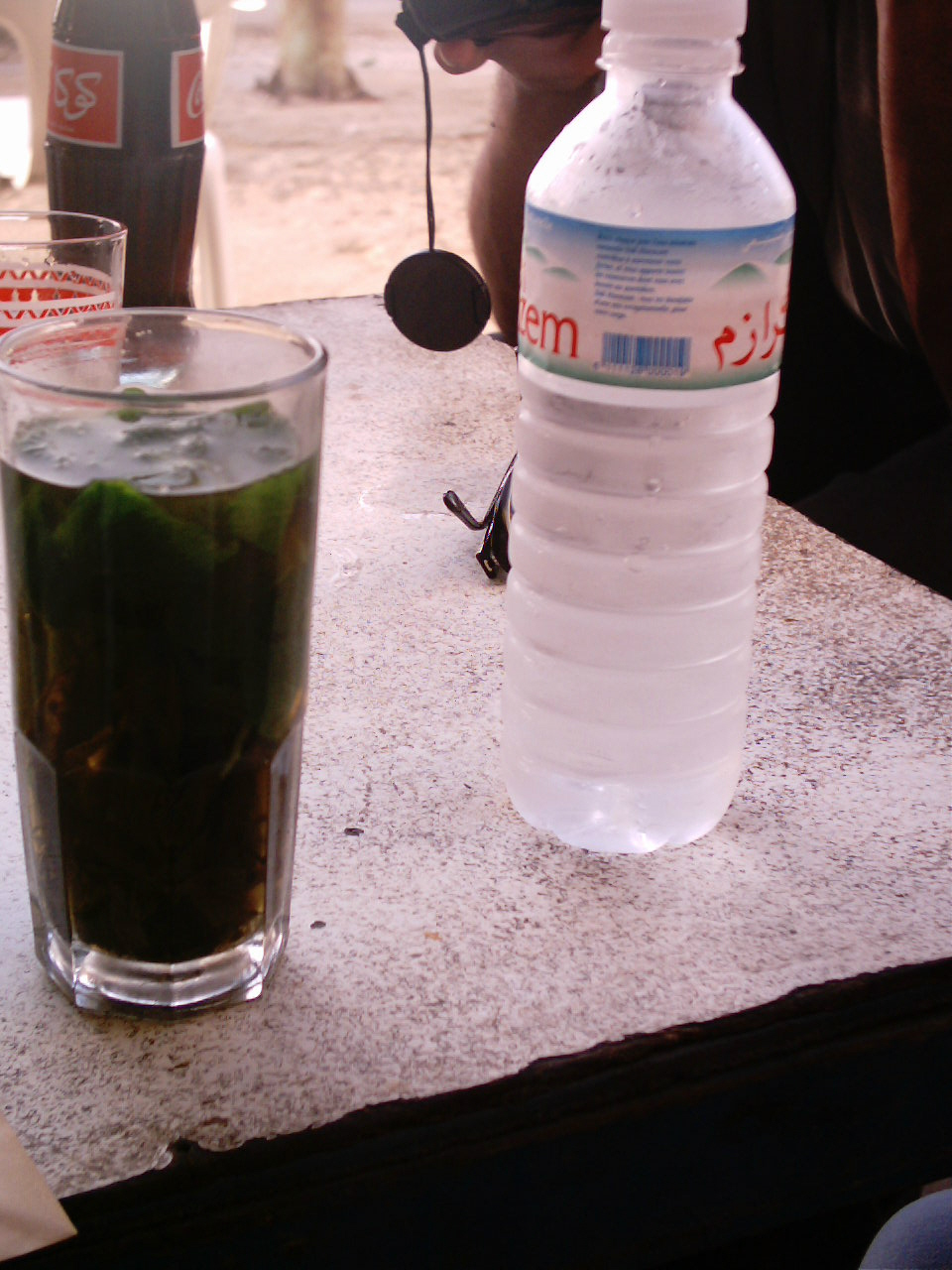 Mint tea, Asilah, Morocco.